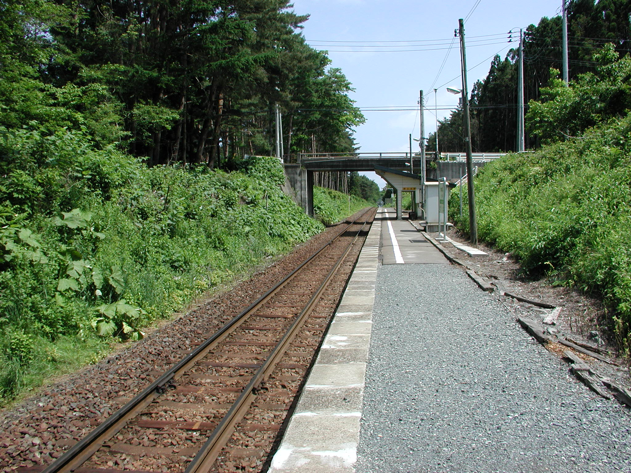 Kanehama Station in Home